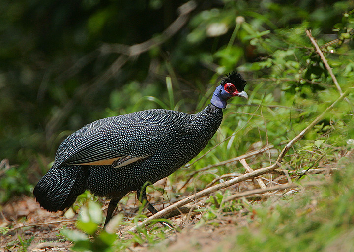 A Guineafowl of forested areas which varies in appearance across its range. This is the so-called Kenya Crested Guineafowl (Guttera pucherani pucherani).